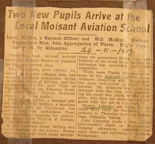 Newspaper clipping describing two new pupils, the Aldasoro Brothers, who arrived at the Moisant Aviation School in February 1913